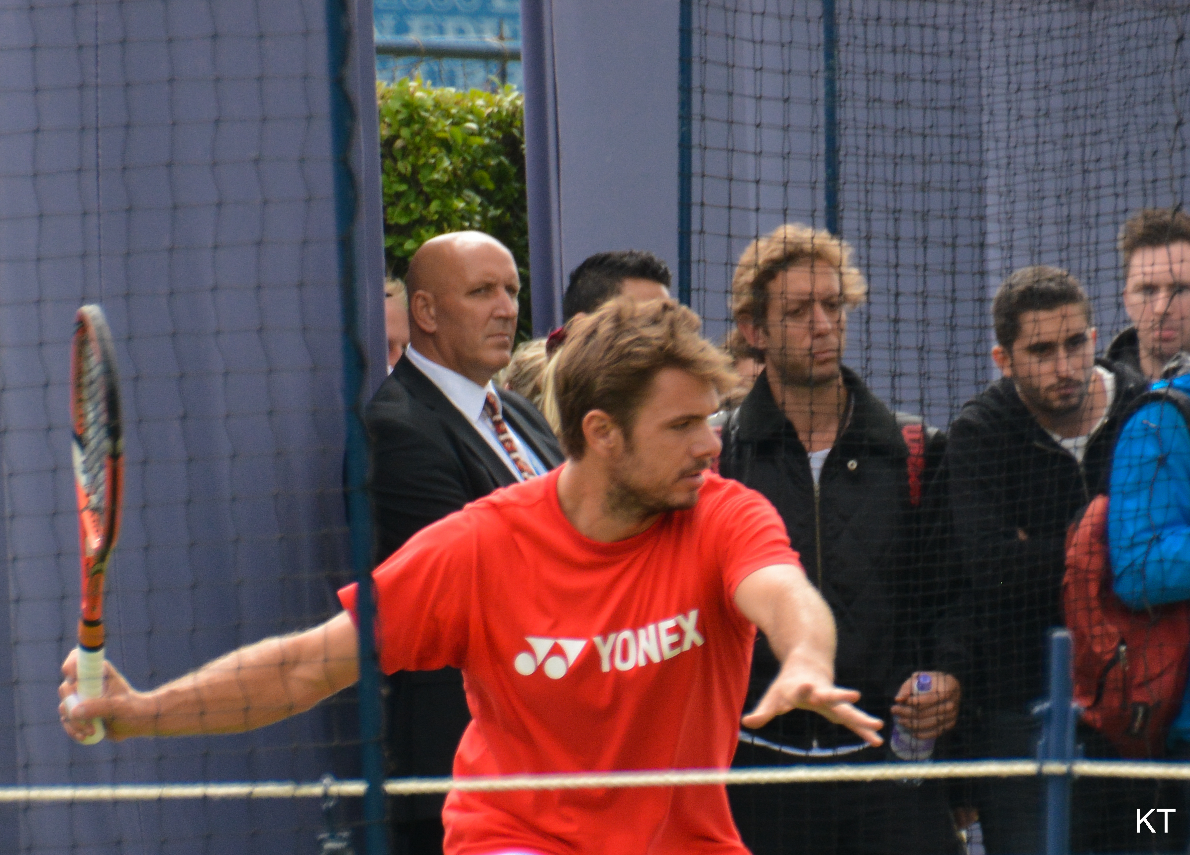 On the practice court. Aegon Championships, Queen's Club, June 2015.